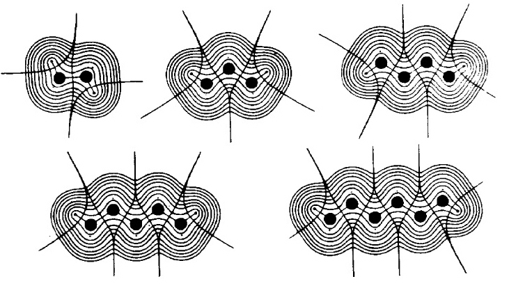 Molecular graphs for ethane, propane, butane, pentane, and hexane